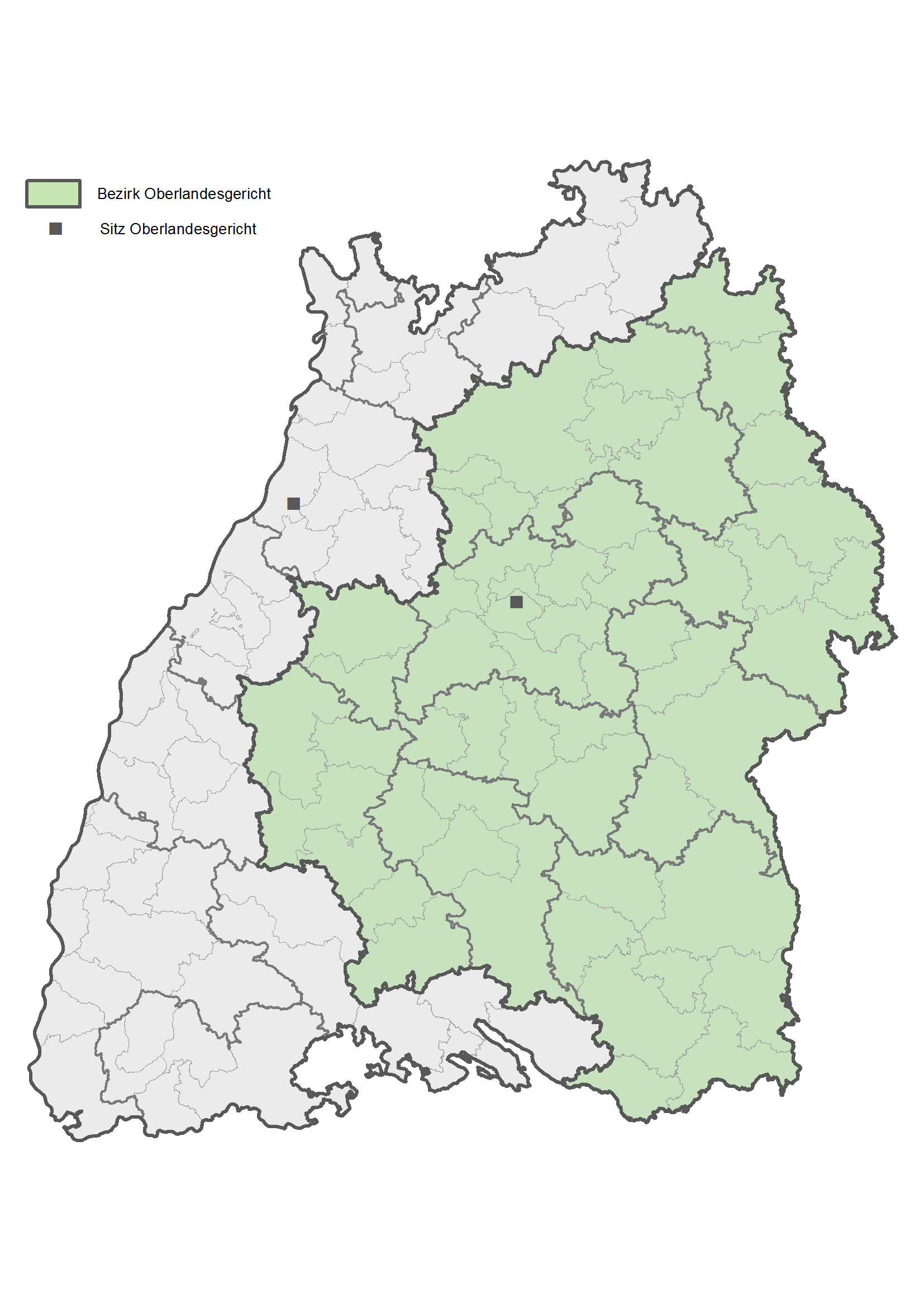 Map of the district of the Oberlandesgericht (higher regional court) Stuttgart in Baden-Württemberg, Germany